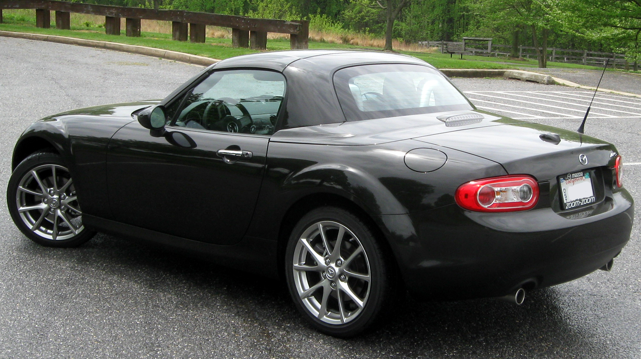 2011 Mazda MX-5 Miata Special Edition hardtop photographed in Highland, Maryland, USA.